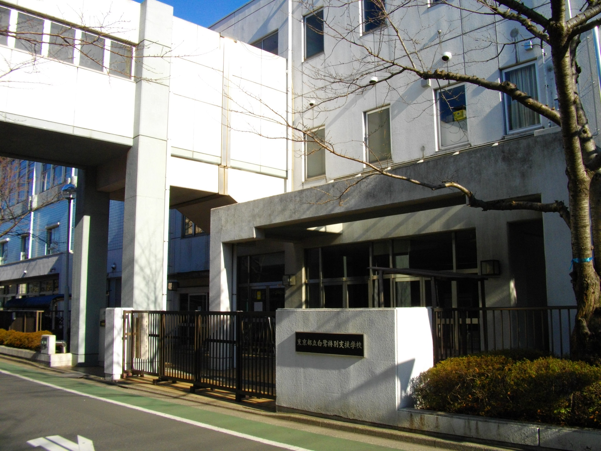 Shirasagi Special Needs School